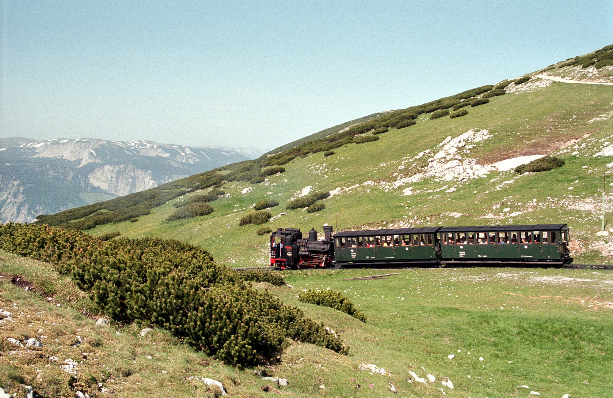 Train with 999.03 near Hochschneeberg summit station.